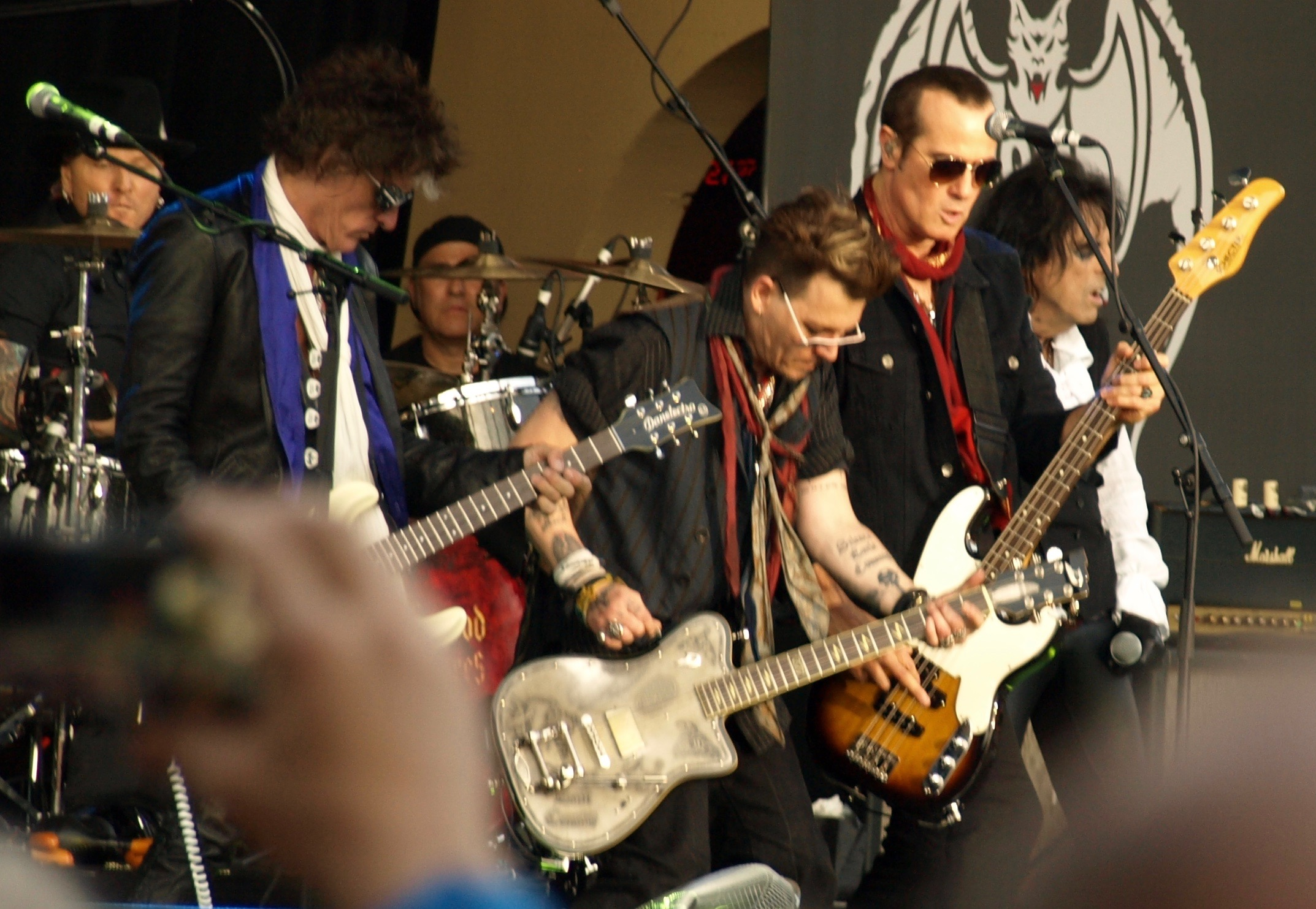 Hollywood Vampires performing at Gröna Lund, Stockholm on 30th May 2016